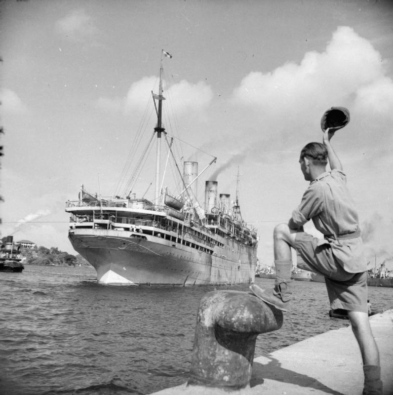 Demobilization of British Service Personnel in the Far East The troopship EMPRESS OF AUSTRALIA leaves No.2 Dock at Singapore carrying British servicemen home for demobilisation.